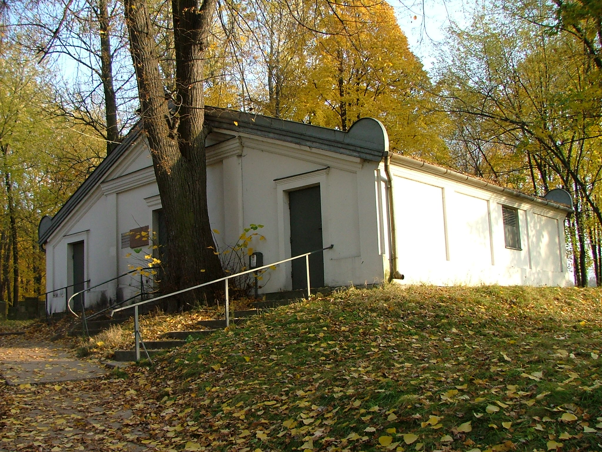 Jewish cemetery in Leżajsk